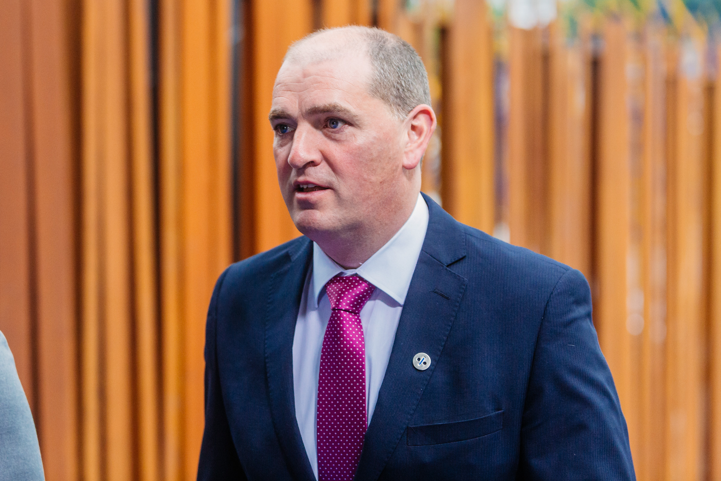 Paul Kehoe, Minister, Department of Defence, Ireland Photo: Arno Mikkor (EU2017EE)